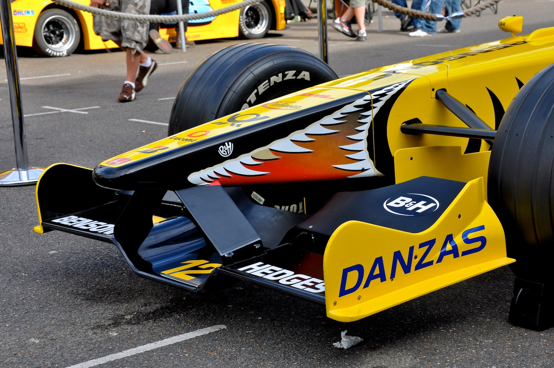 Jordan EJ11's front wing exposed at the 2010 Bury St Edmunds Motorsports Show